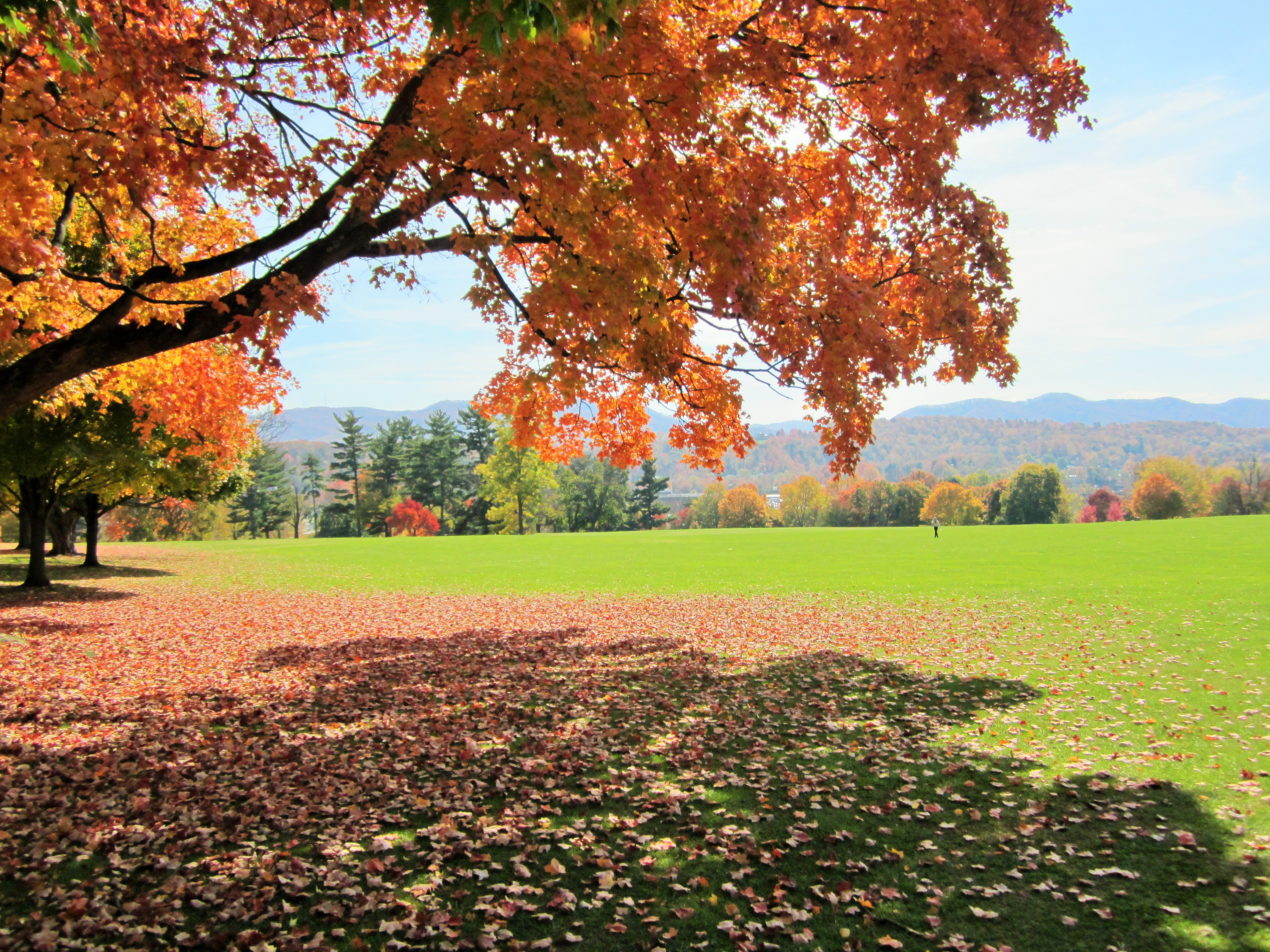 View from ETSU Medical Campus